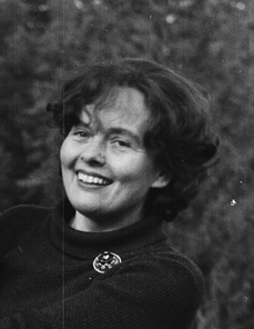 Marie Takvam (1926-2008) was a Norwegian lyricist, novel writer, writer of children's books, playwright and actor.